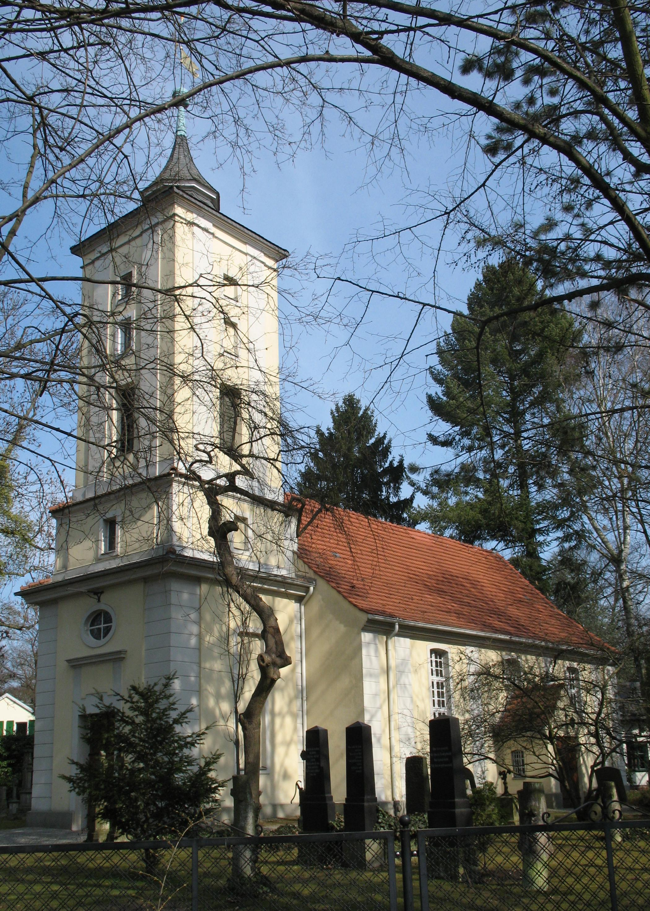 Church in Heiligensee in Berlin-Reinickendorf, Germany